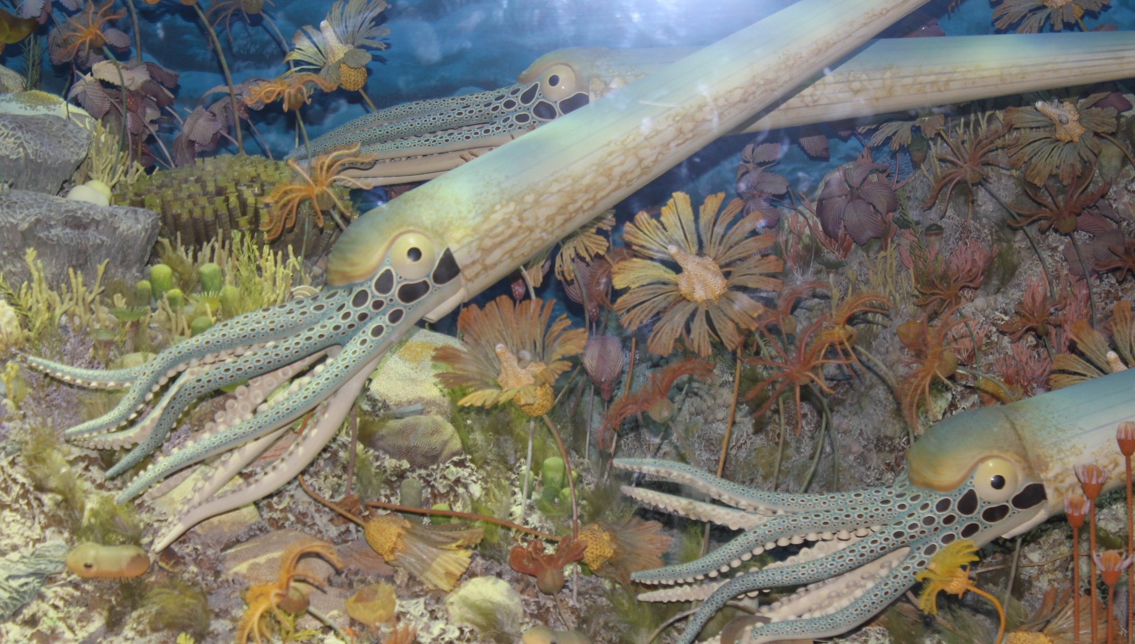 Orthocones, a kind of ancient and giant Nautilus like Mollusk